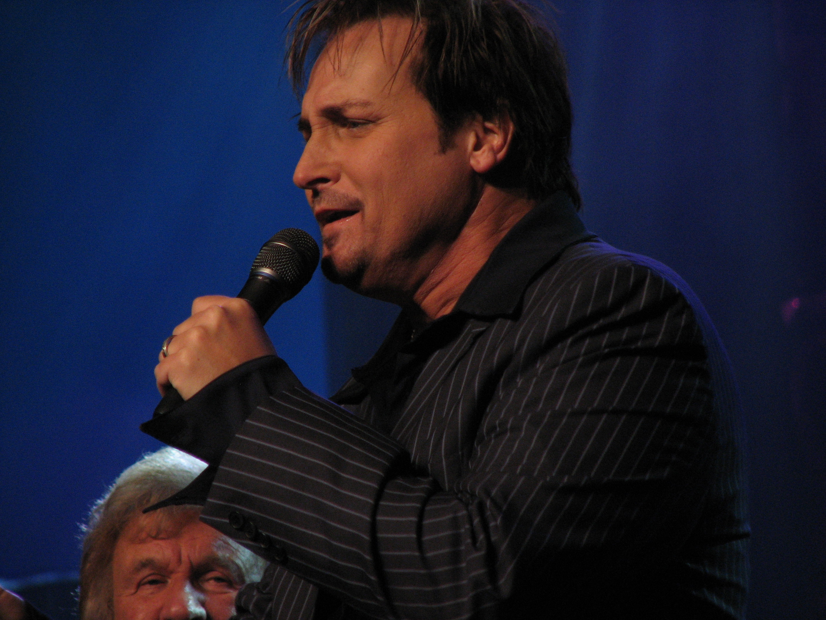 Michael English performing in 2009.